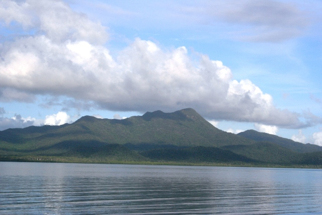 Tropical Hinchinbrook Island from Cardwell, north Queensland, Australia.